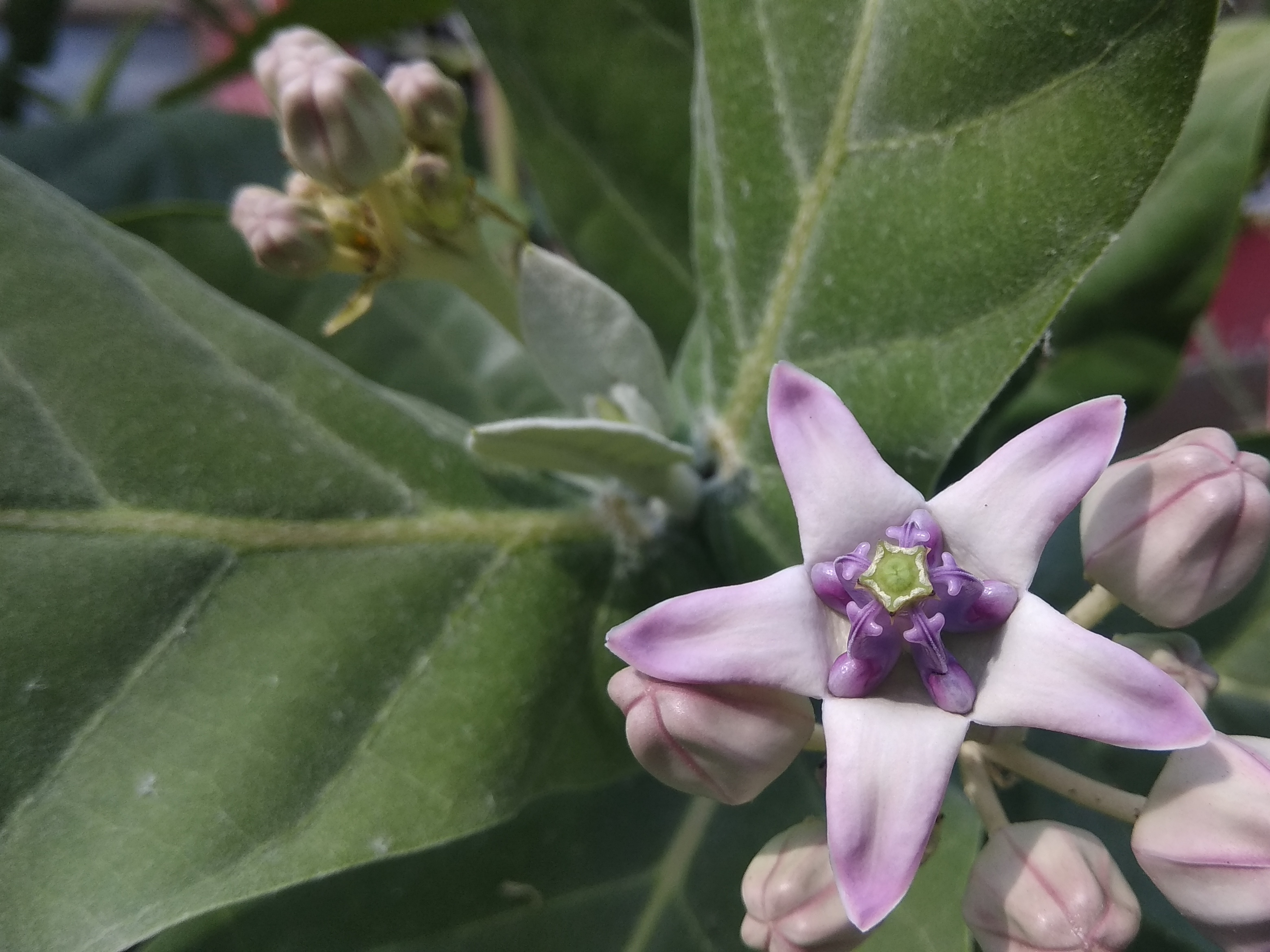 Calotropis Gigantea flower